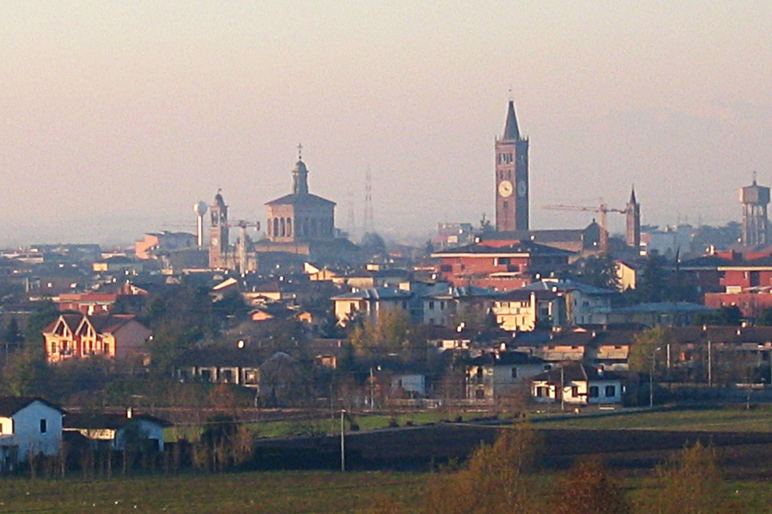 A view of Treviglio